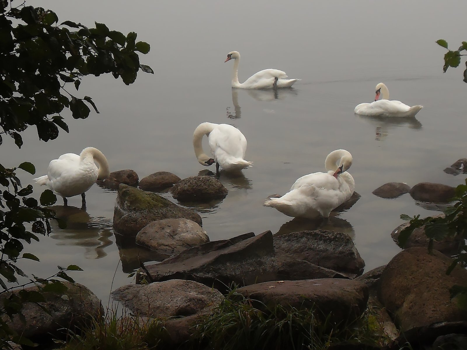 Morning Toilet swans